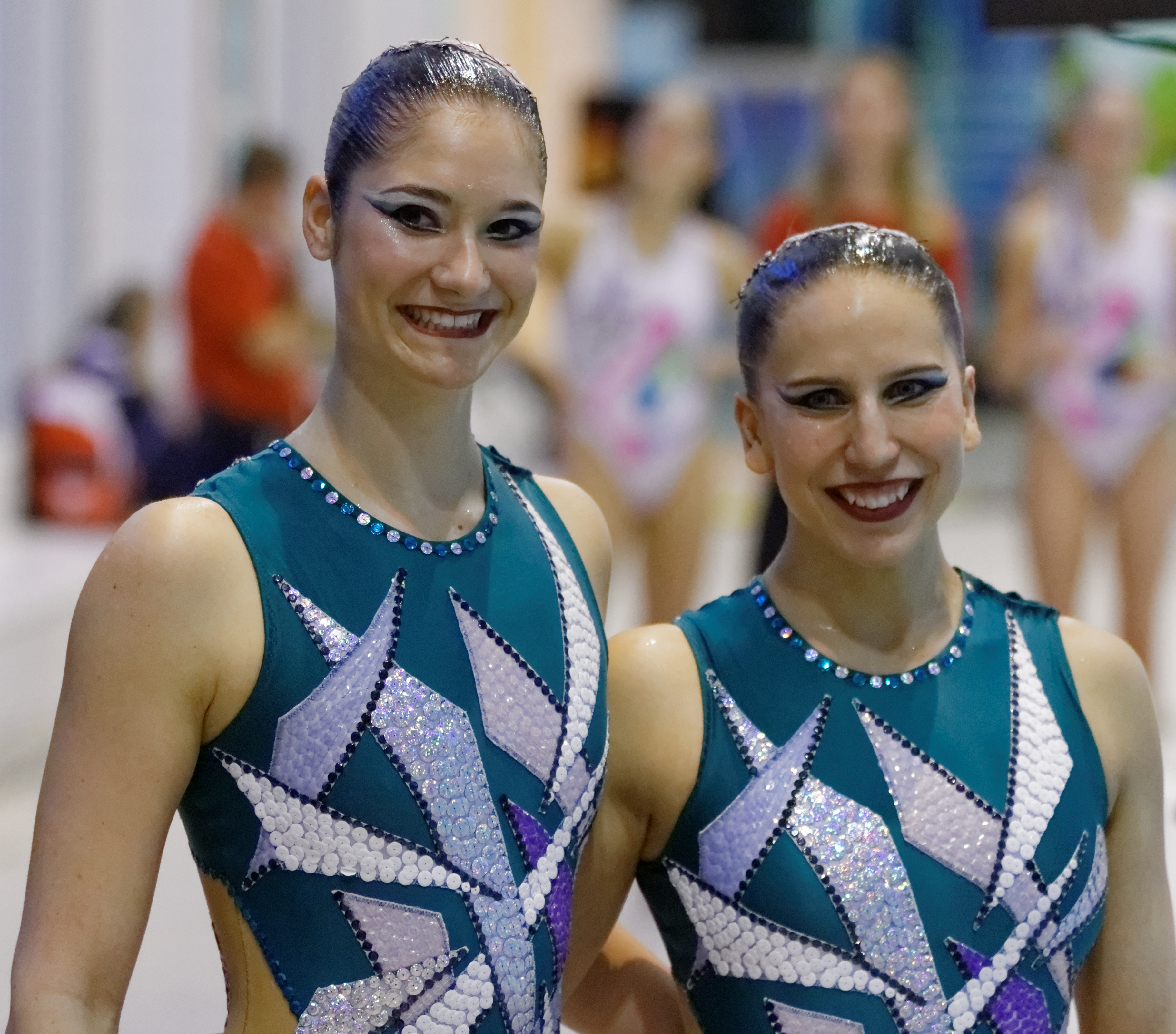 Pamela Fischer and Anja Nyffeler (left), duet free routine (final), Open Make Up For Ever.